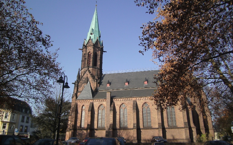 Protestant church in Viersen, Germany.